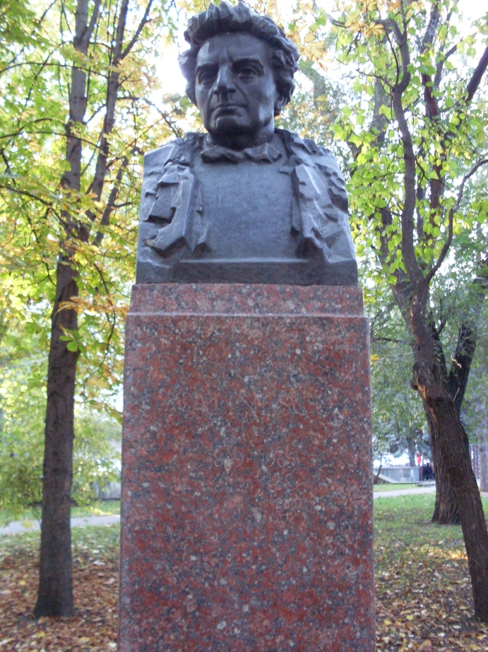 Bust of George Călinescu in the Alley of Classics of Chişinău.